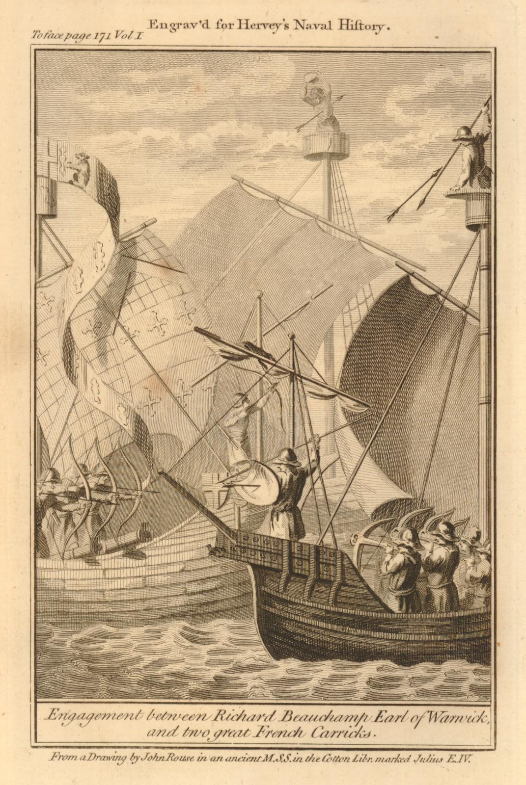 Vessels close-hauled, longbowmen left facing crossbowmen right, man about to hurl object from the crow's nest of Warwick's ship transfixed by arrow, while a man armed with spear in other crow's nest is about to suffer same fate; illustration to Hervey's Naval History. c.1779 Etching and engraving